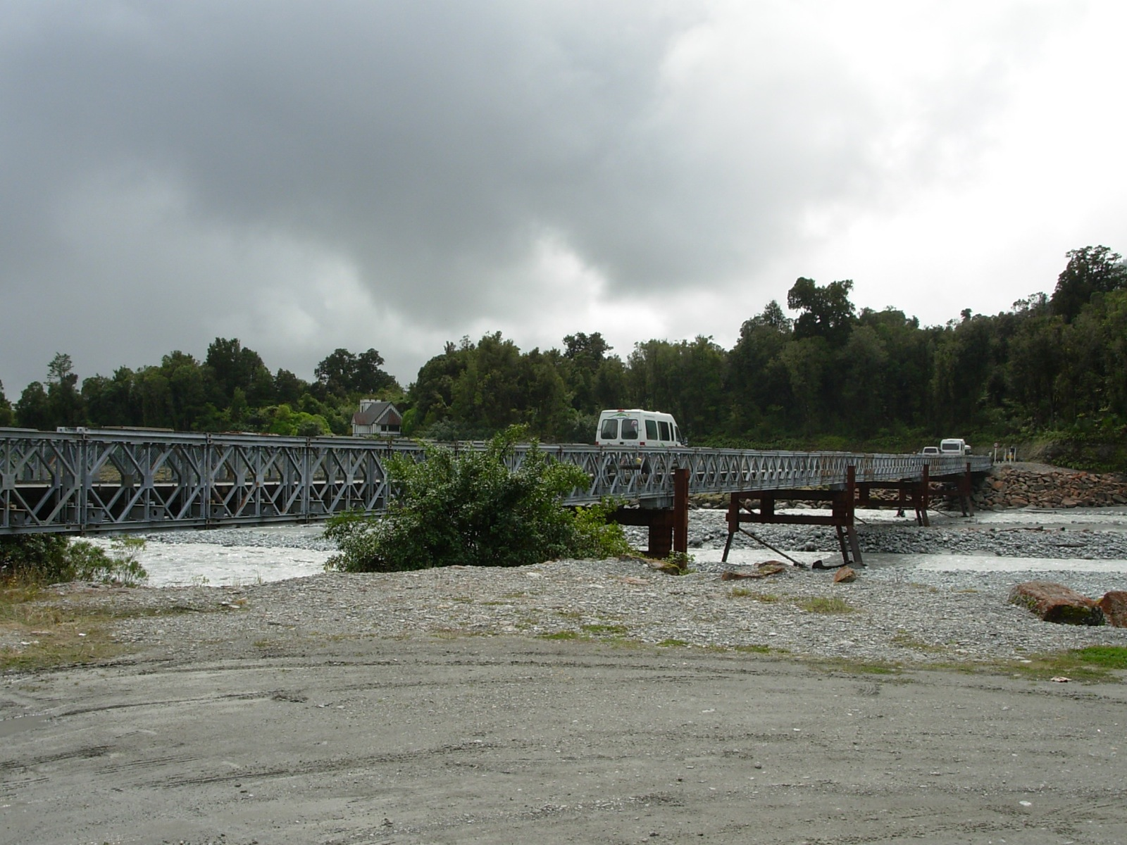 It seemed like every bridge on the West Coast was a one-lane bridge (i.e. traffic in only one direction at a time).